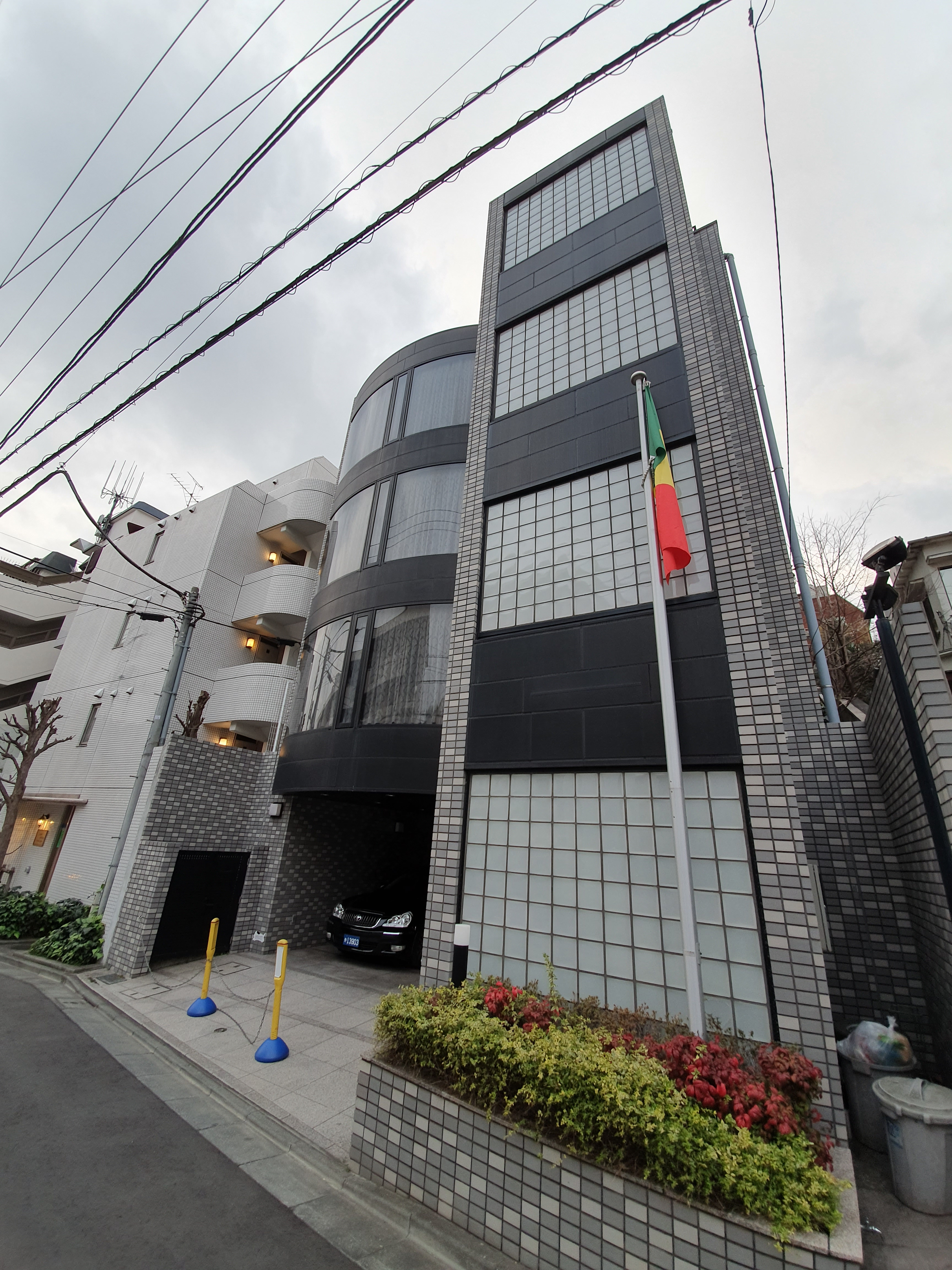 embassy